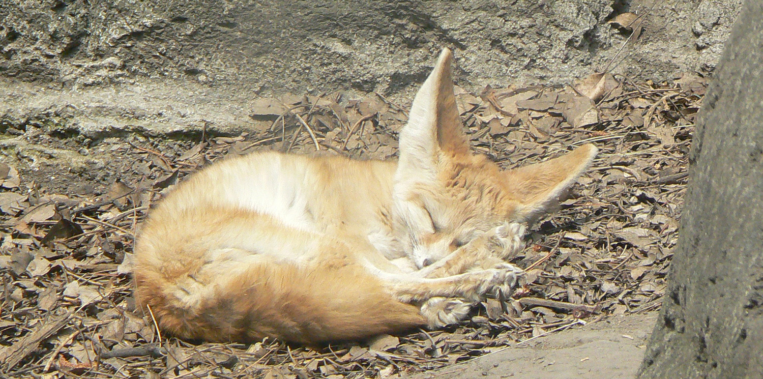 Vulpes zerda (fenec fox) at the zoo in mexico city